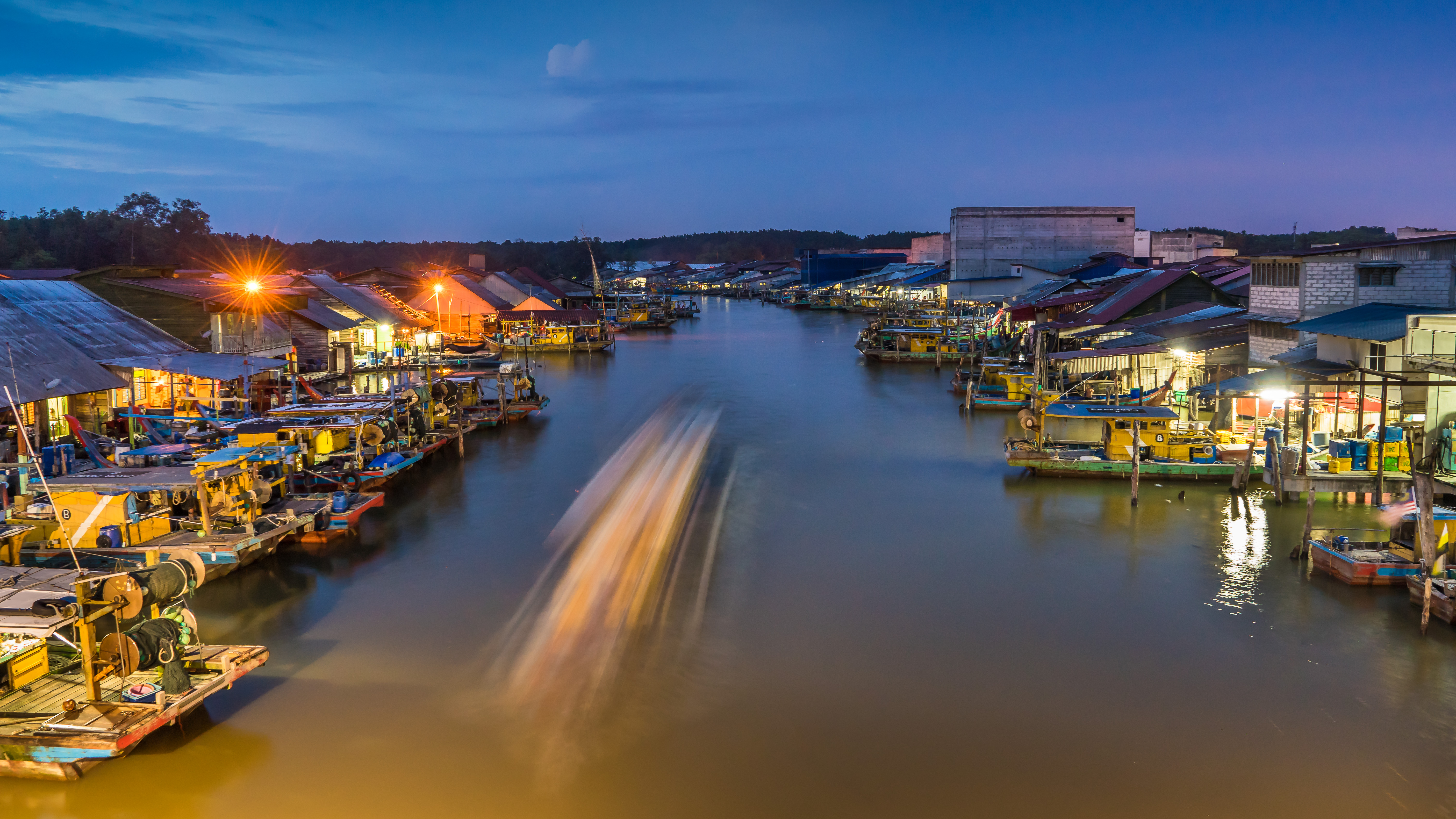 Blue hour at the fishing village of Kuala Sepetang, Perak, Malaysia.